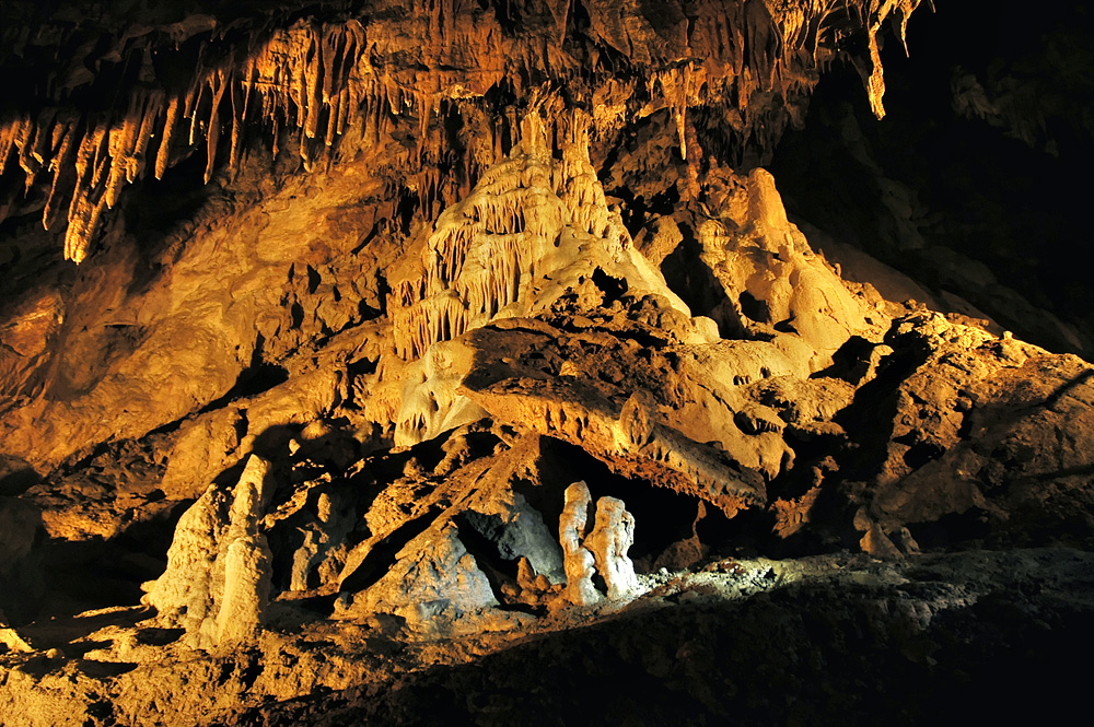 Dripstones in István Cave, Lillafüred, Bükk Mountains